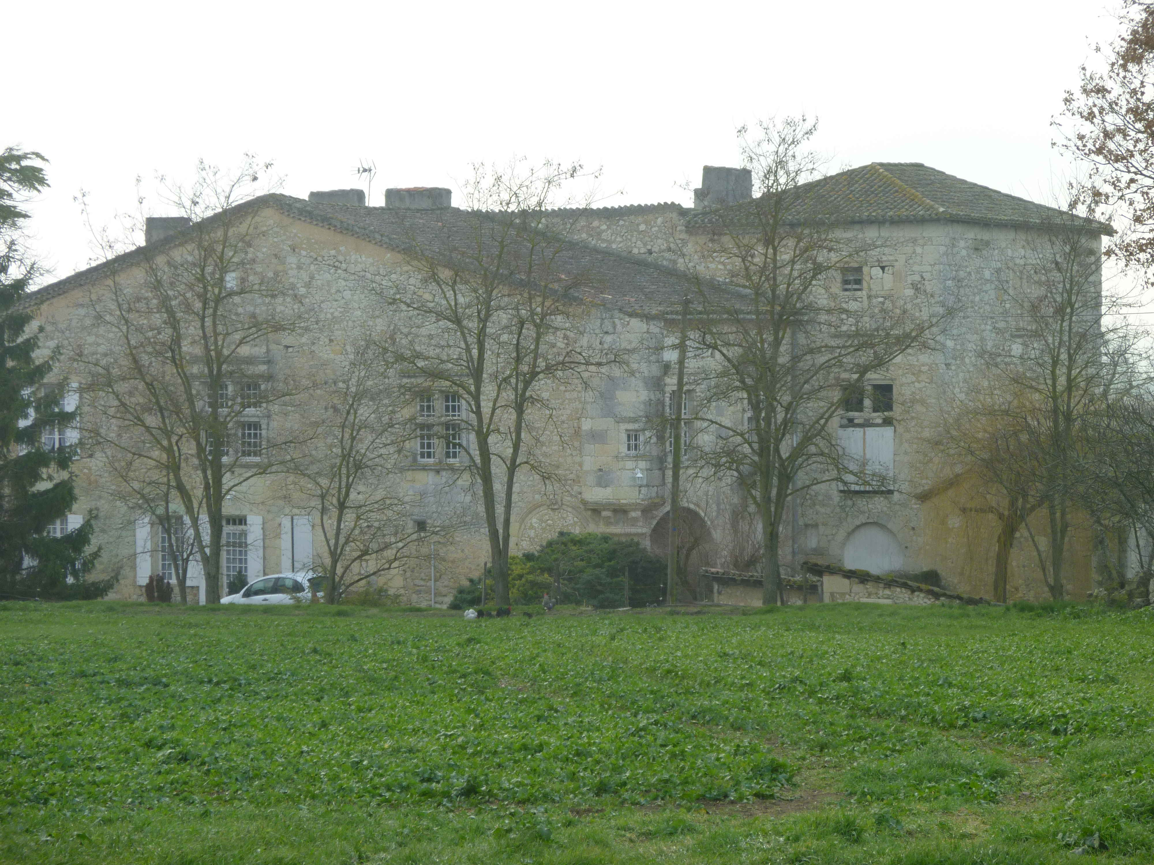 Château de Madirac, historical monument, La Romieu (Gers, France)